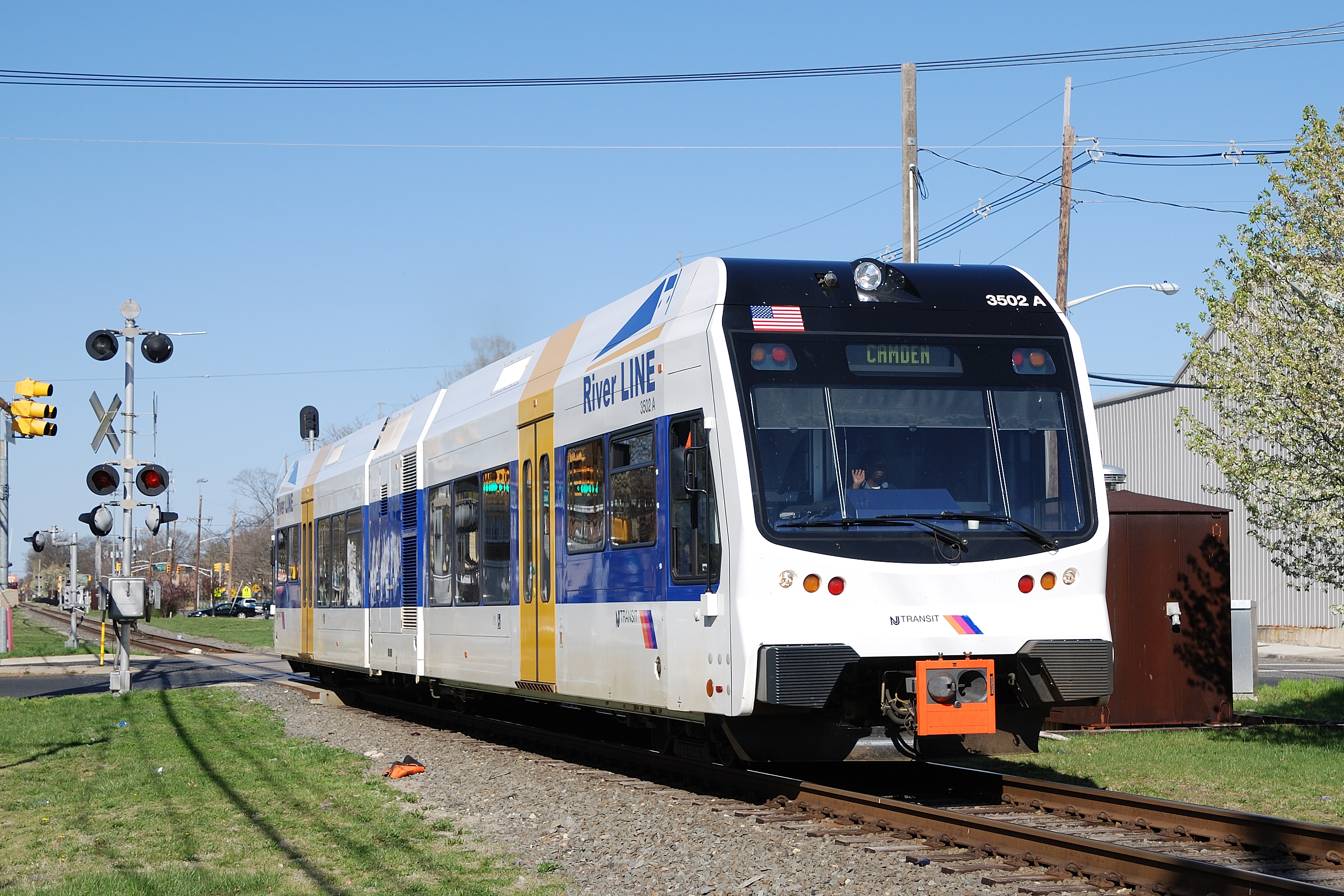 This is my picture.. it is online at This is my personal photo website. I give permission. This shows running on a weekday afternoon. Stephen Noyes